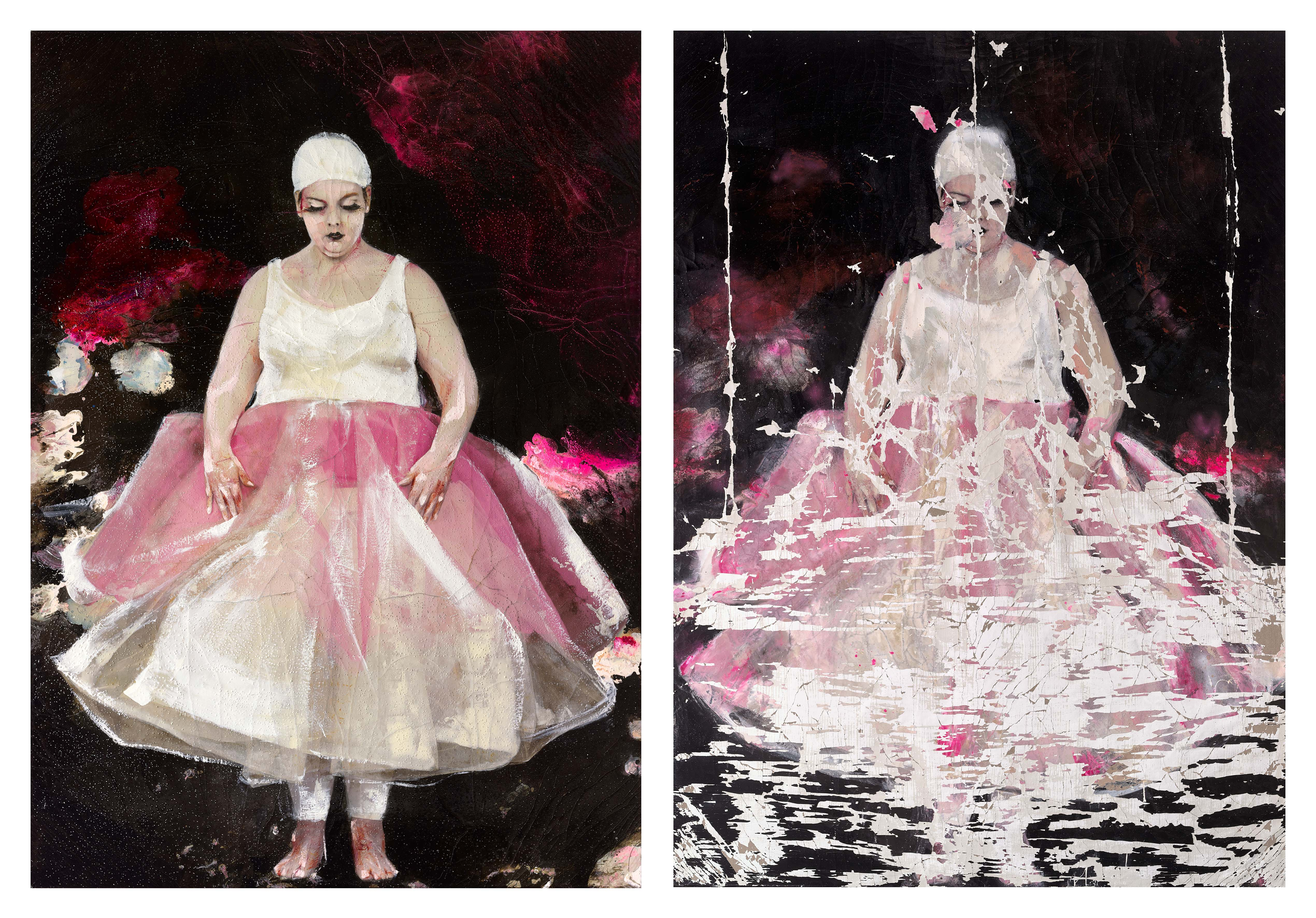 Diptique consisting of figurative and the broken work. Each 260x200cm. Mixed media on canvas.